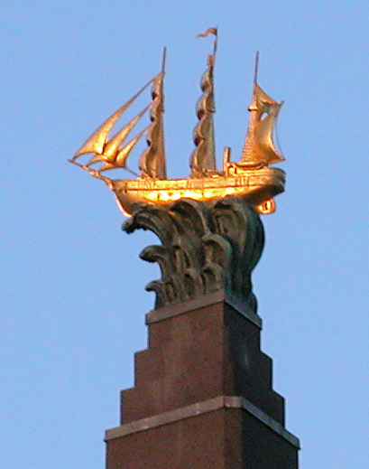 The Vega monument by Ivar Johnsson (1885–1970), erected 1930 south of the Swedish Museum of Natural History in Frescati, Norra Djurgården, Stockholm, Sweden.